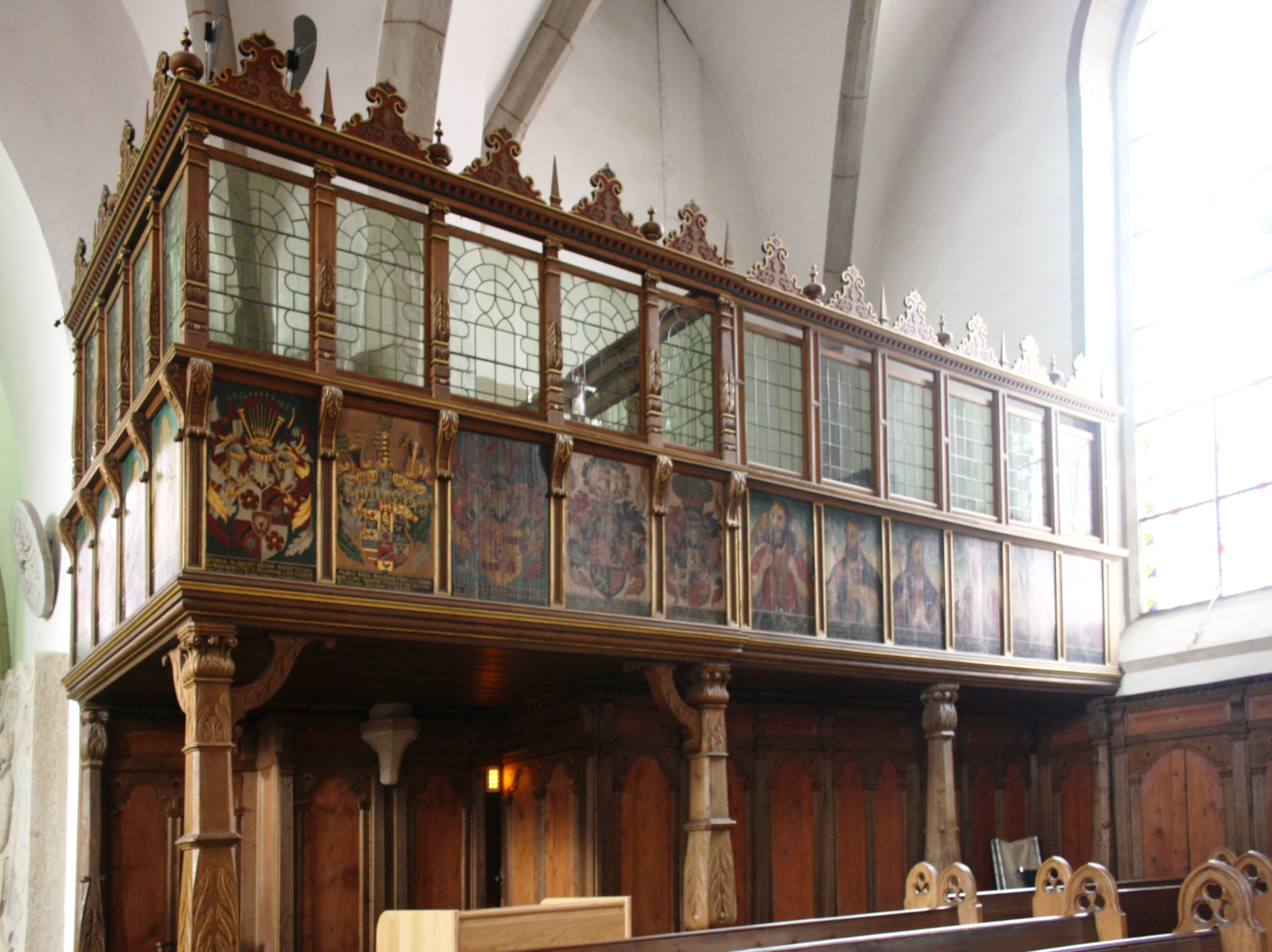 Saint Martin in Stadthagen, Germany. Seat of the peers.